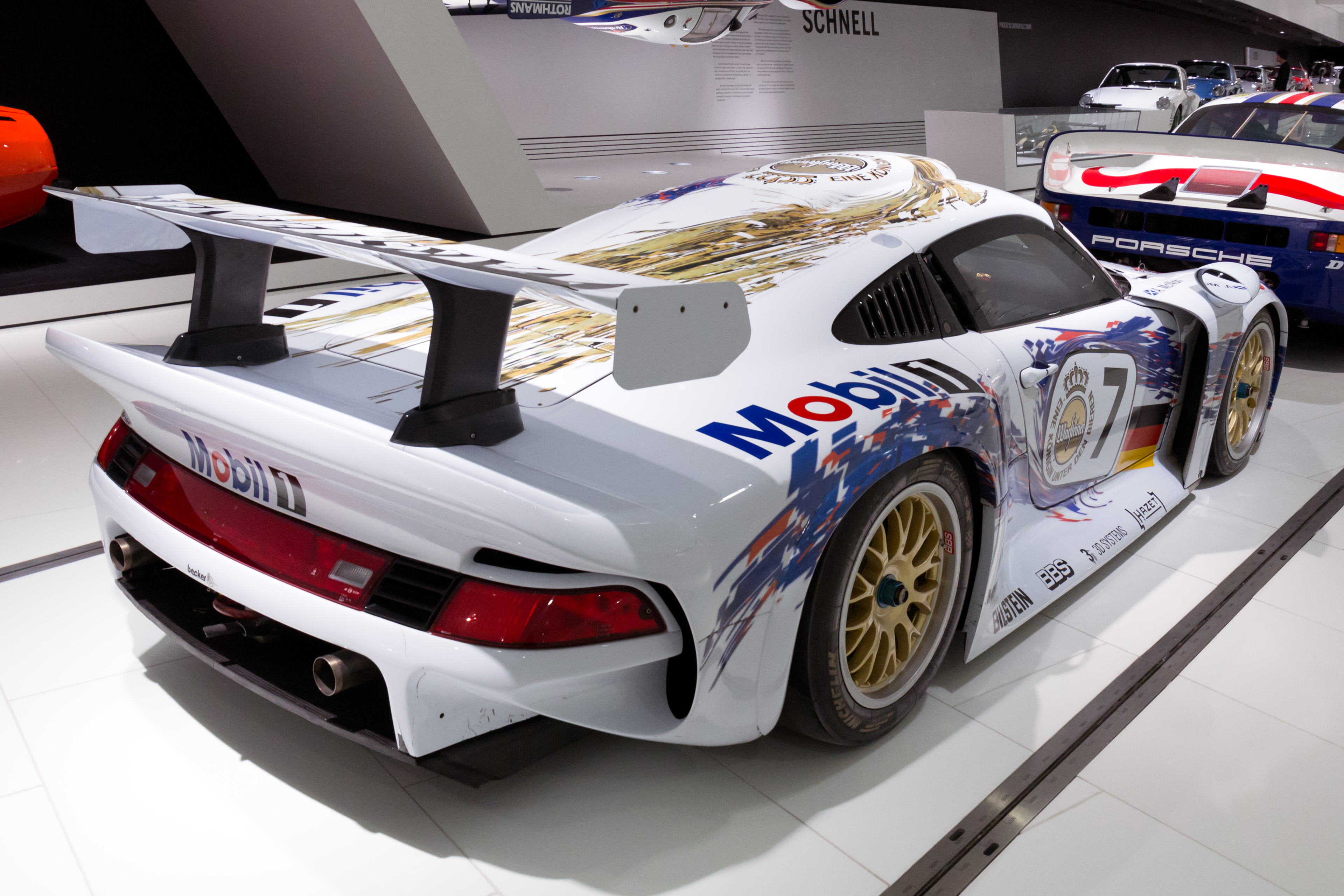 1996 Porsche 911 GT1